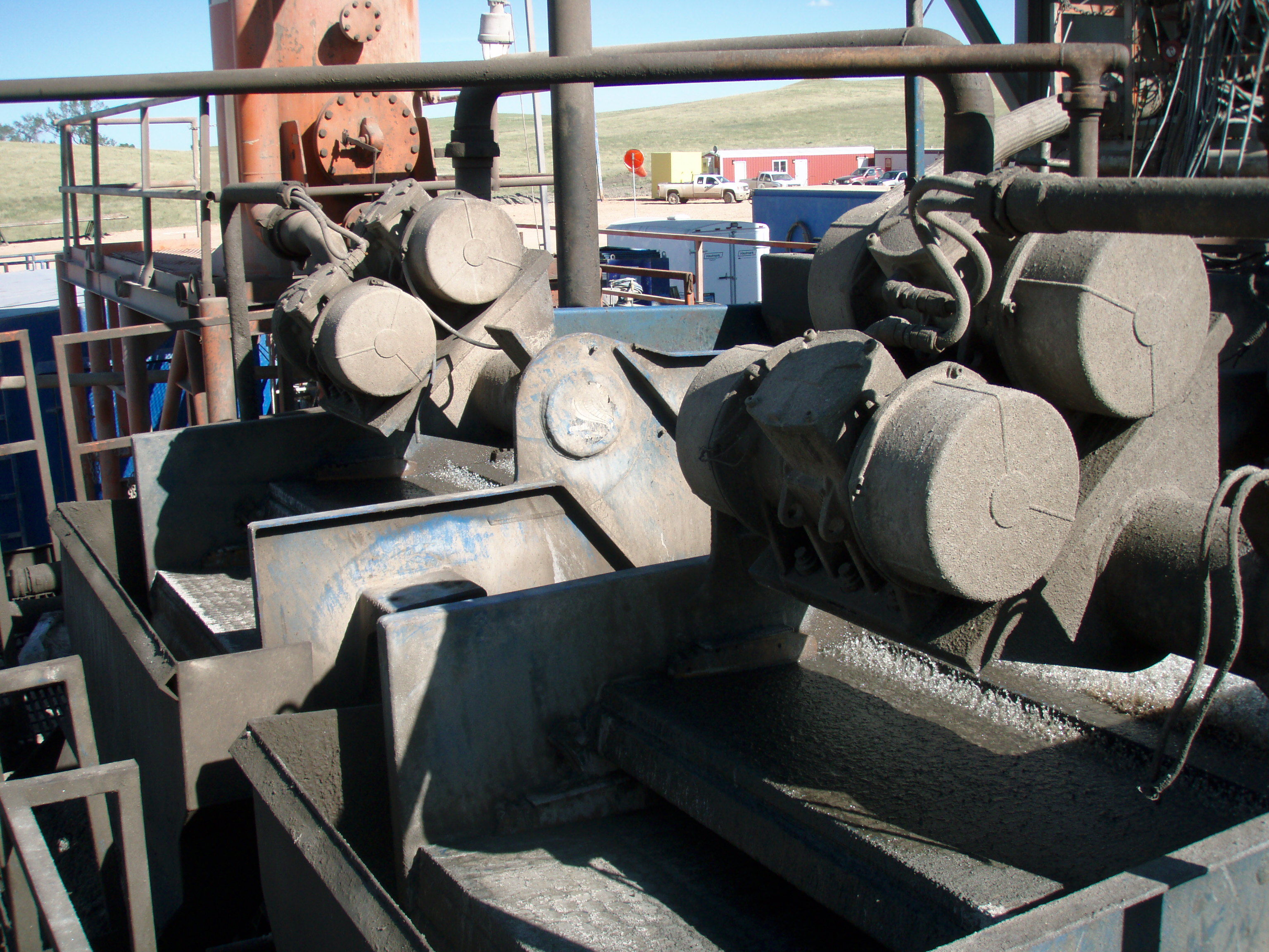 Where the rock fragments come out and are separated from the drilling fluid